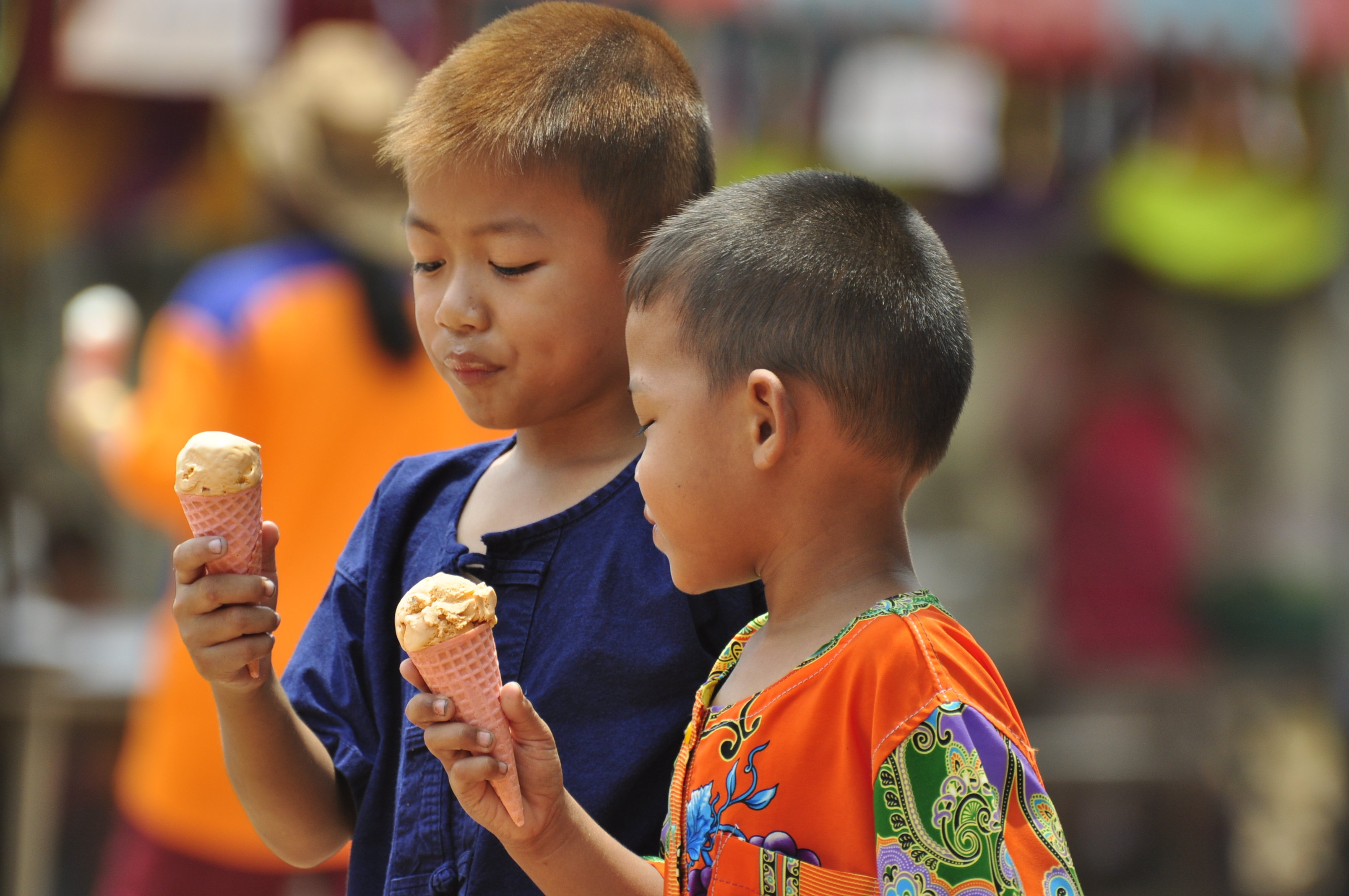 Thai people / Demographics of Asia / Child / Siamese People